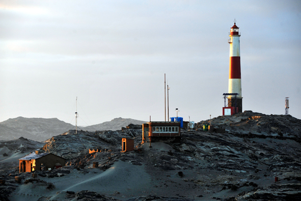 Lighthouse near Diaz-Point (Lüderitz), Namibia, october 2012